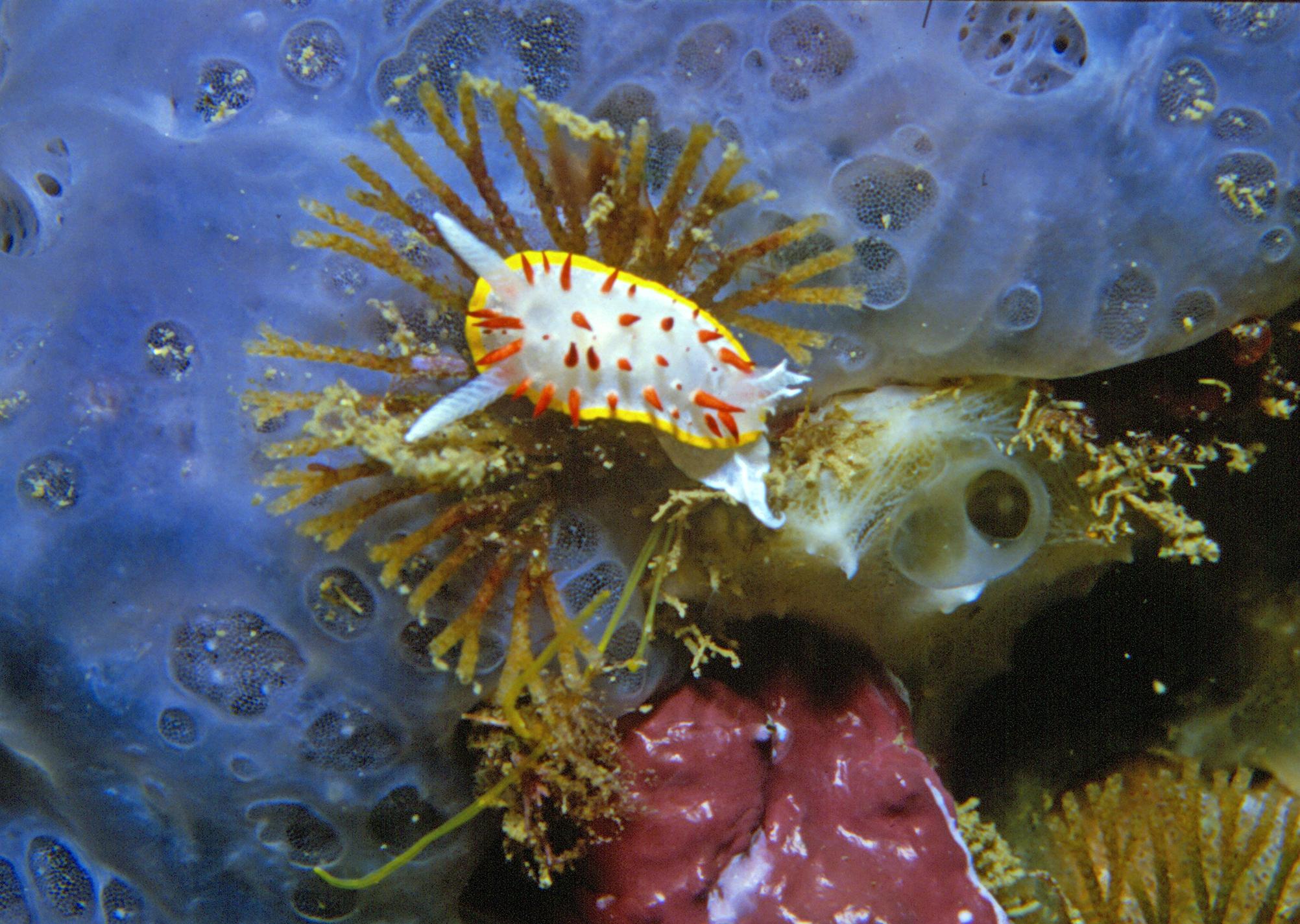 Diaphorodoris papillata Portmann & Sandmeier, 1960, Bugula neritina (Linnaeus, 1758), Phorbas tenacior (Topsent, 1925), Dysidea fragilis (Montagu, 1818) - Banyuls-sur-Mer : 08/85